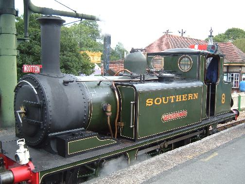 Low-quality photo of ex-LBSCR A1 Class 'Terrier' locomotive "Freshwater" at Havenstreet railway station, Isle of Wight Steam Railway.